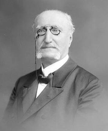 Antonín Randa (1834-1914). Czech lawyer. Photo of 23 March 1912.